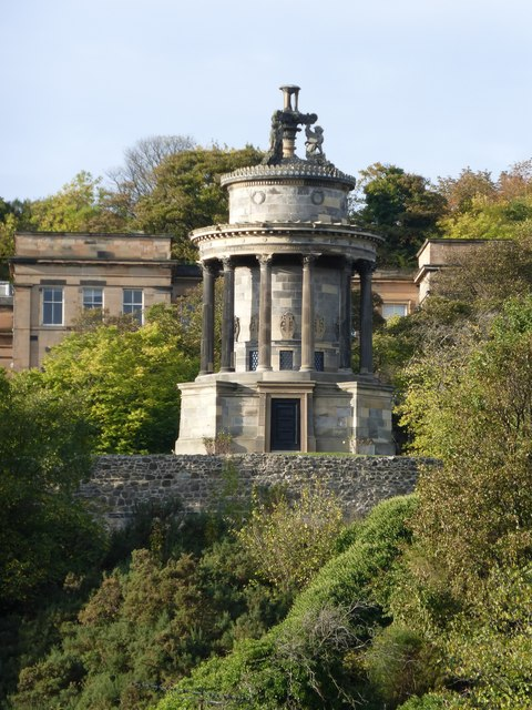 Burns Monument, Regent Road